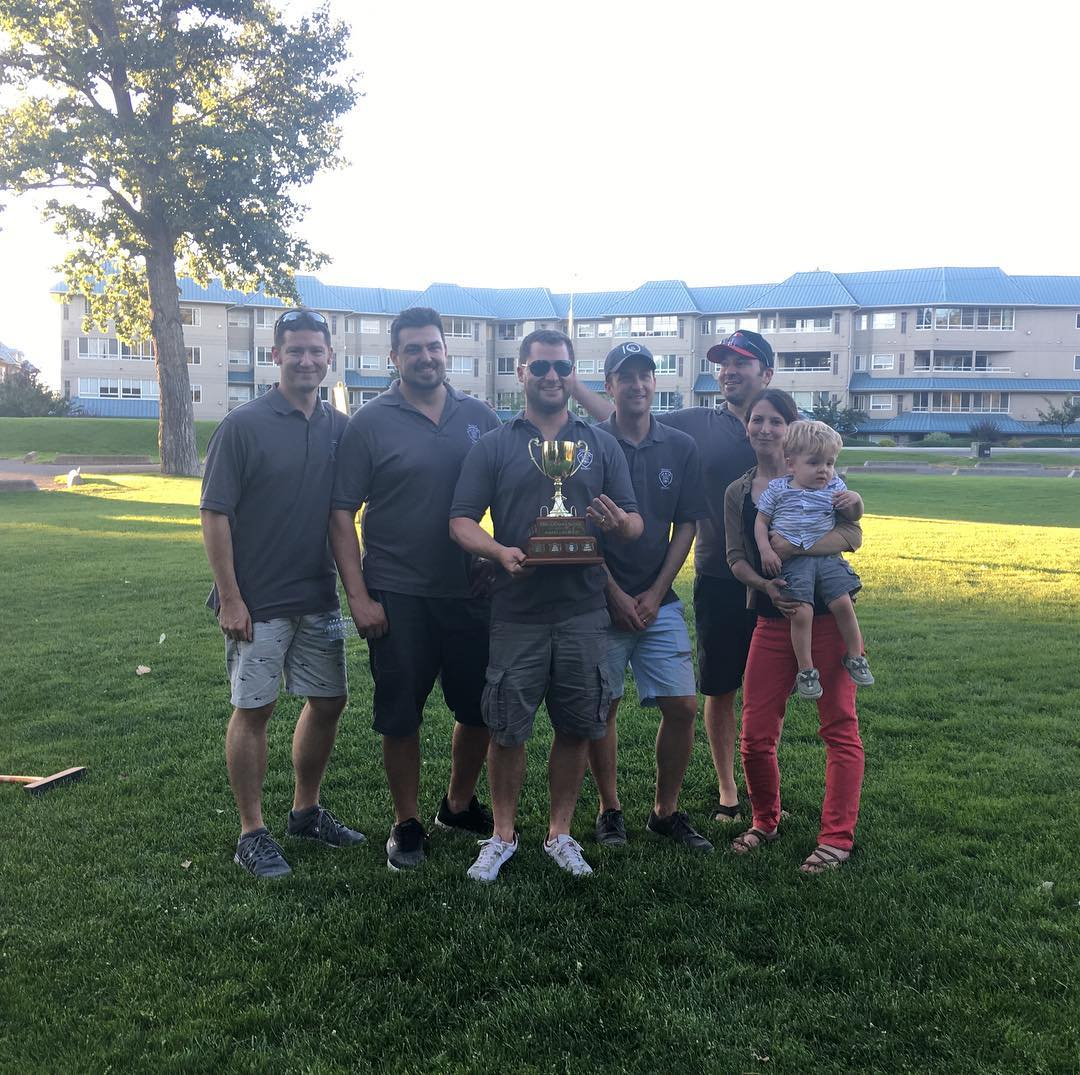 6 competitors for the 2017 Wile Cup